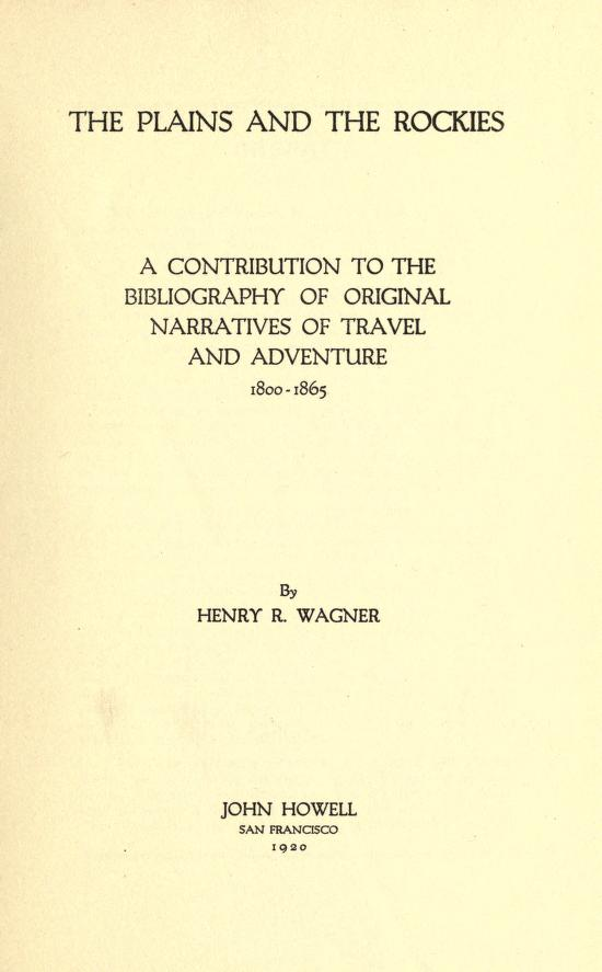 Title page of The Plains and the Rockies by Henry Raup Wagner.